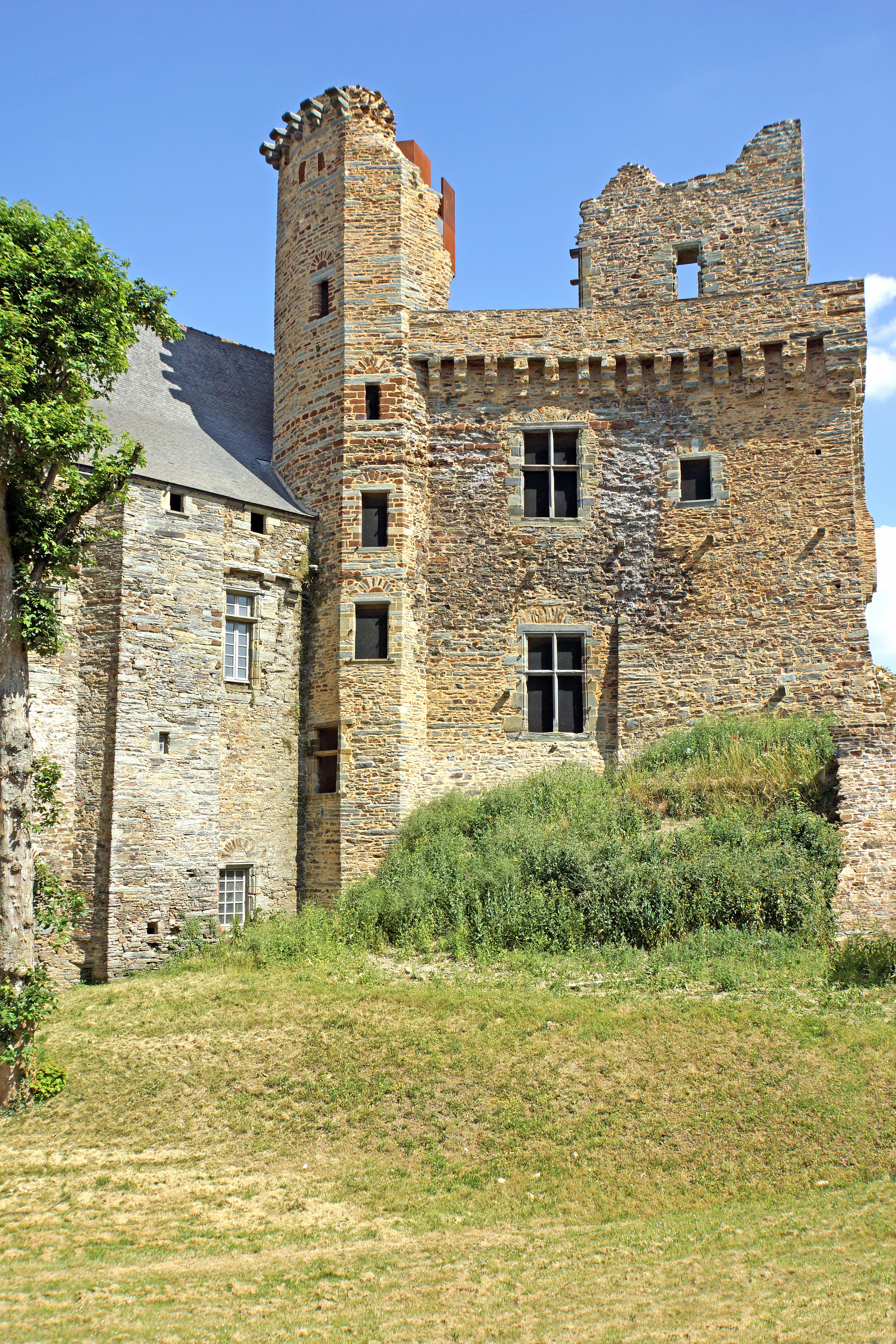 PLEASE, NO invitations or self promotions, THEY WILL BE DELETED. My photos are FREE to use, just give me credit and it would be nice if you let me know, thanks. The keep and its windows, opened after the Mad War. The Mad War, also known as the War of the Public Weal, was a late Medieval conflict between a coalition of feudal lords and the French monarchy.